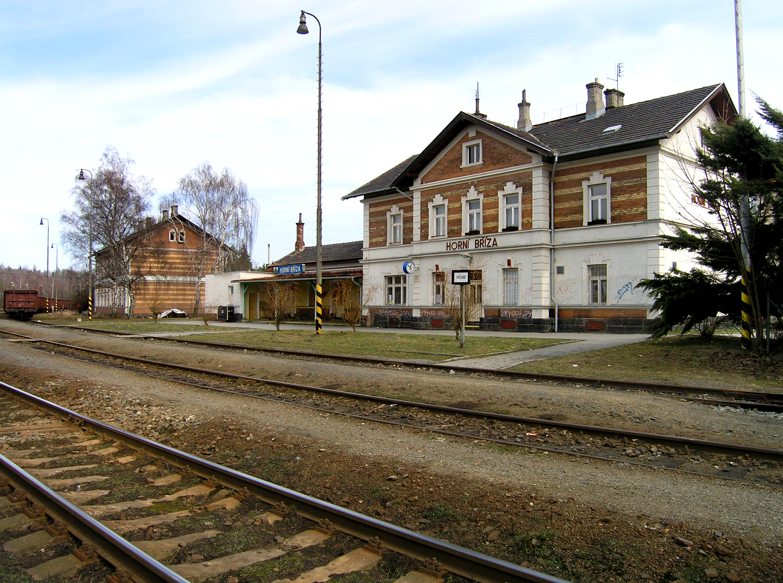 Railway station in Horní Bříza, Czech Republic